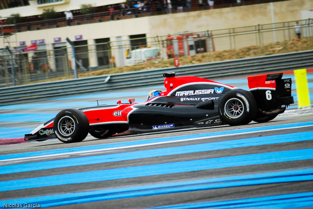 6 Robert Wickens - Carlin - 2011 Formula Renault 3.5 Series - Circuit Paul Ricard - Race 2